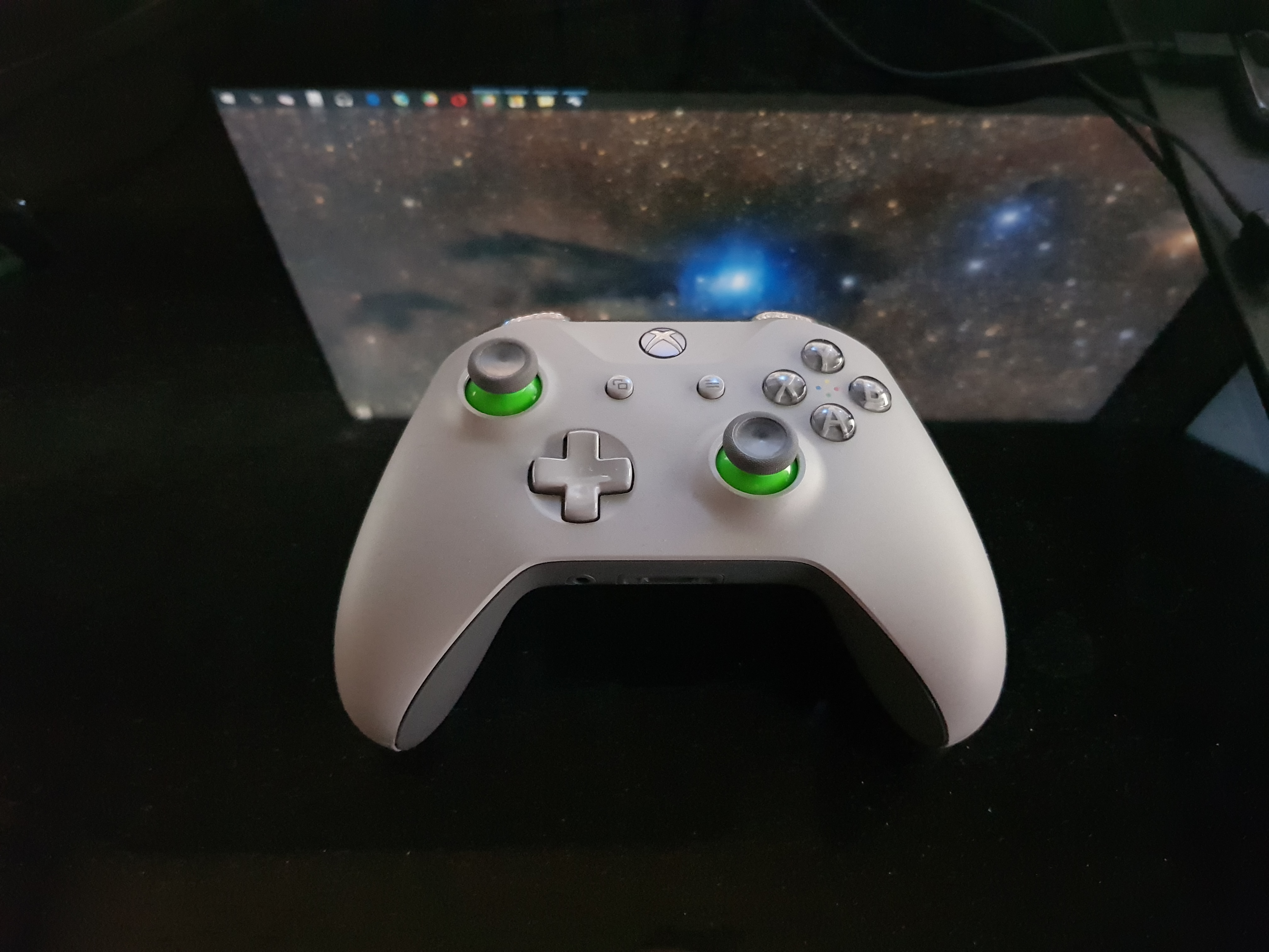 Gray wireless Xbox One/PC controller on a glass table